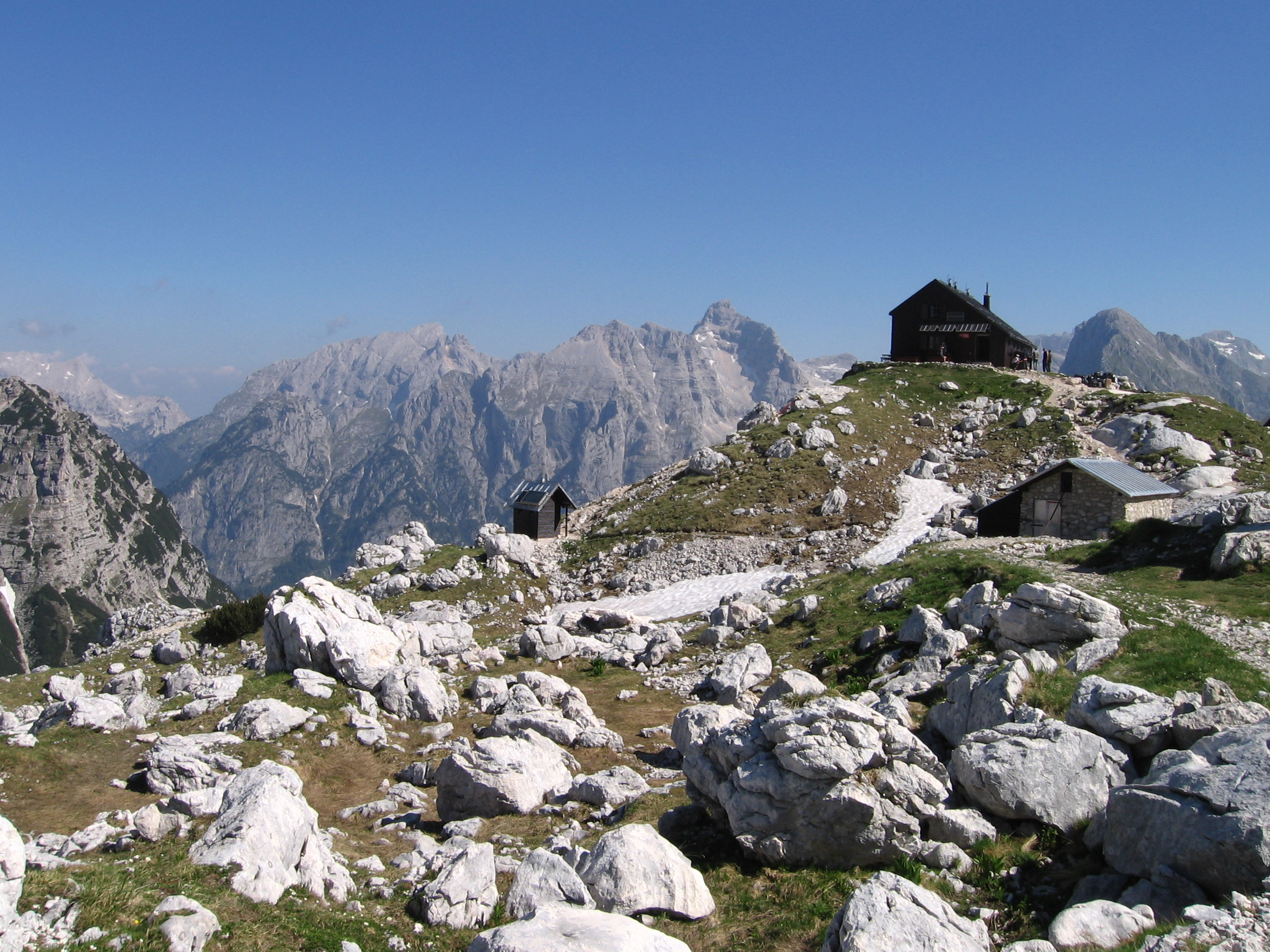 Prehodavci Pass, above the Trenta Valley, in the Julian Alps, northwestern Slovenia.